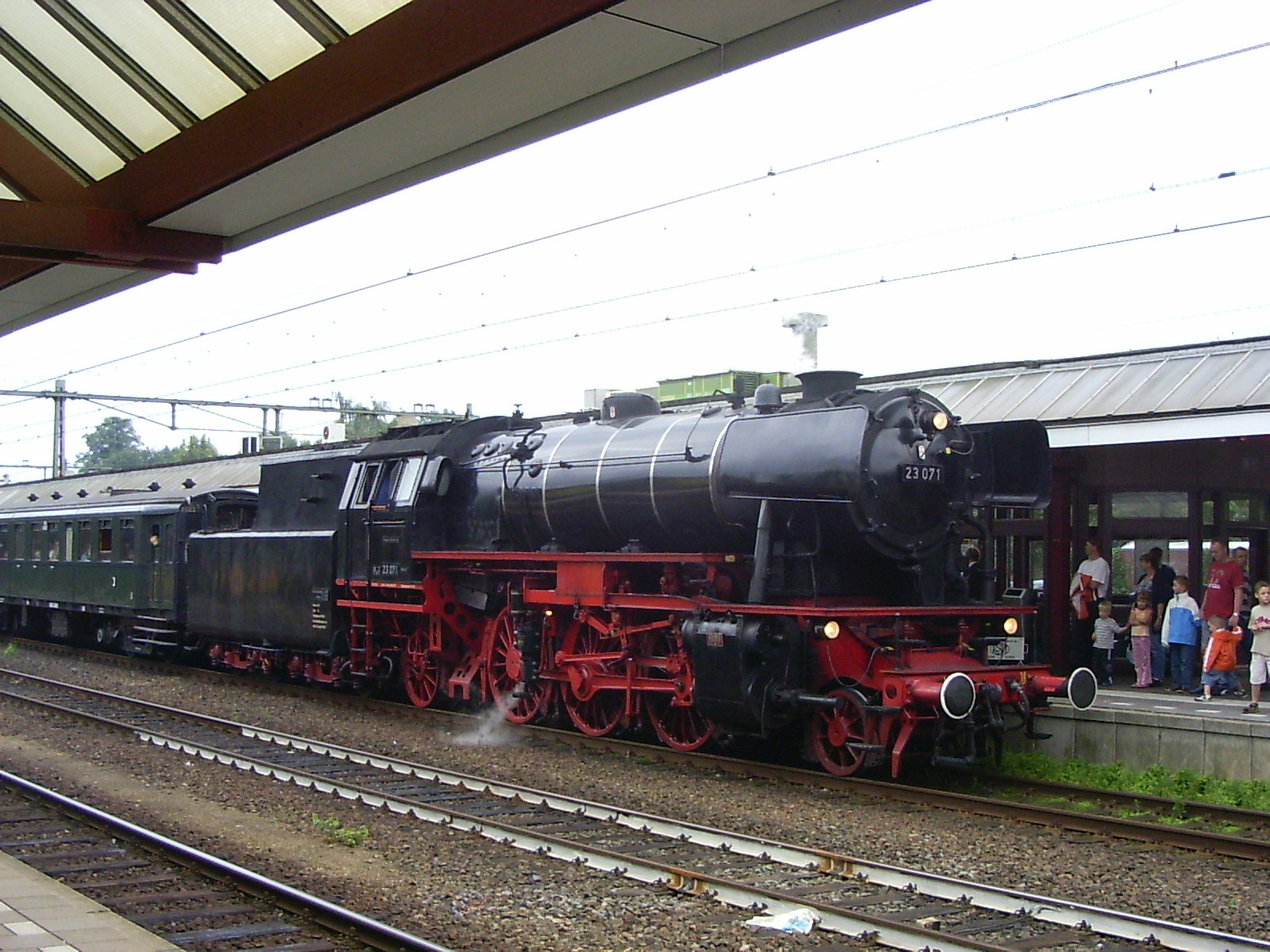 Locomotive Baureihe 23 at Ede-Wageningen.